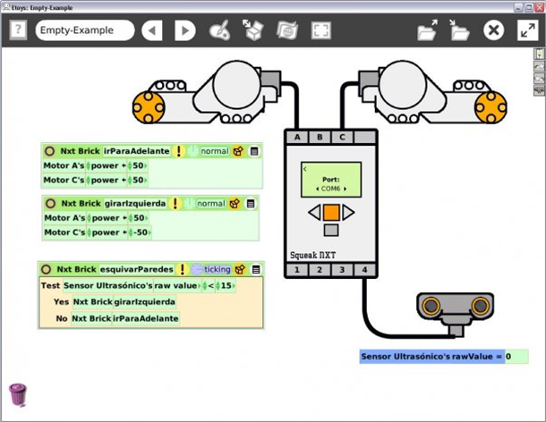 This shows the implementation of a car that avoids walls with Physical Etoys.